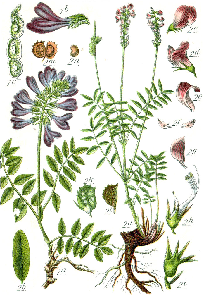 1: Hedysarum hedysaroides (L.) Schinz & Thell. subsp. hedysaroides, syn. Hedysarum obscurum L. , nom. illeg. 2: Onobrychis viciifolia Scop., syn. Hedysarum onobrychis L. Original Caption 1. Süssklee, Hedysarum obscurum 2. Esparette, H. onobrychis